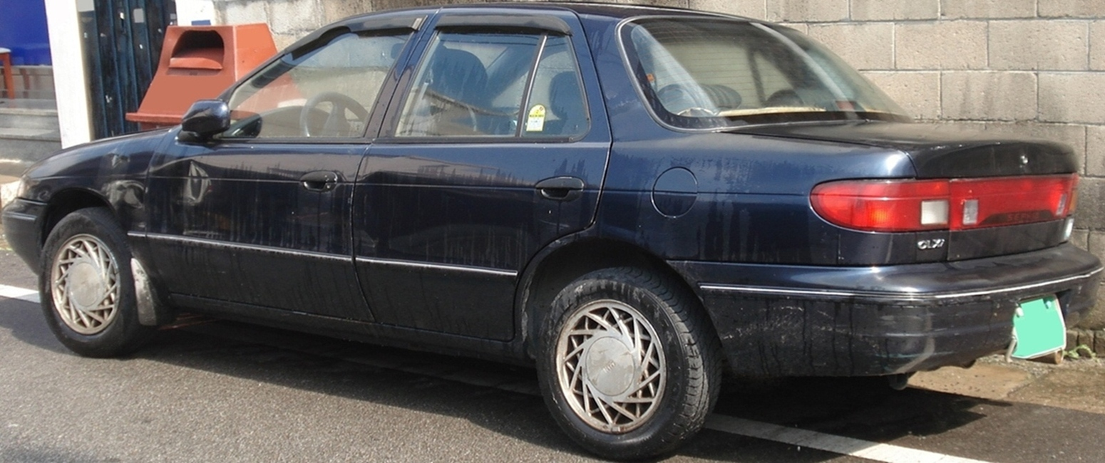 Kia Sephia